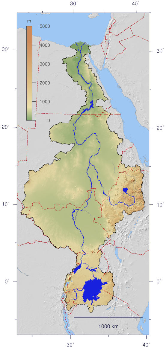 Course and Watershed of the Nile with topography shading and political boundaries.